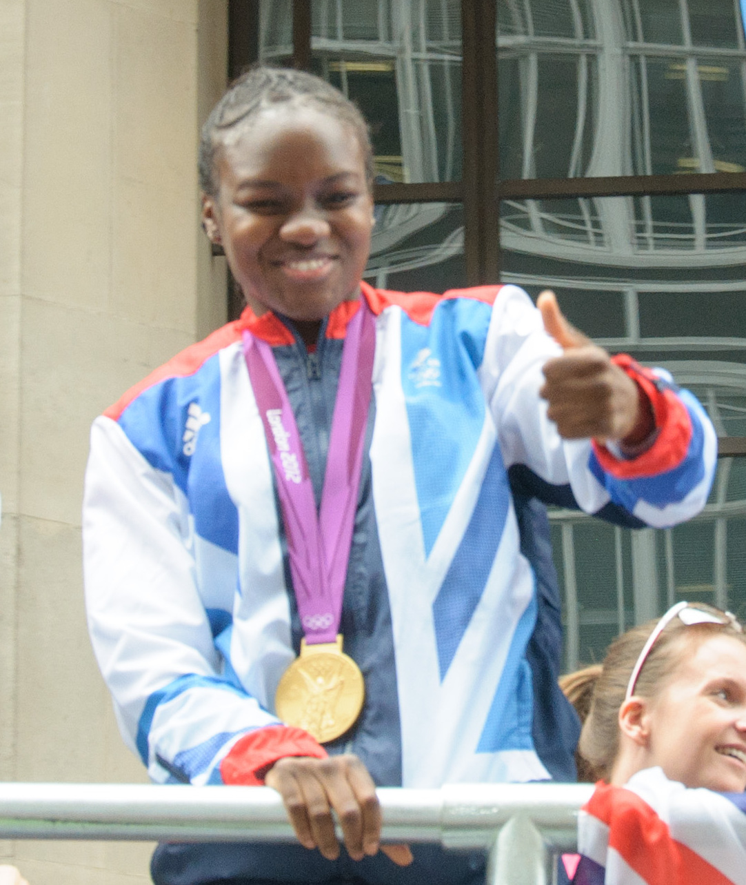 Joshua Anthony and Nicola Adams